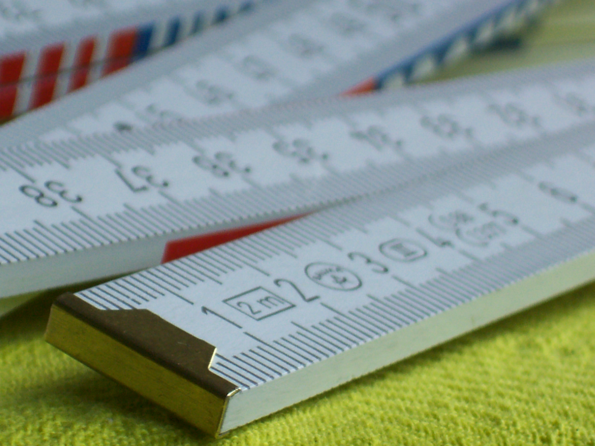 folding rulers